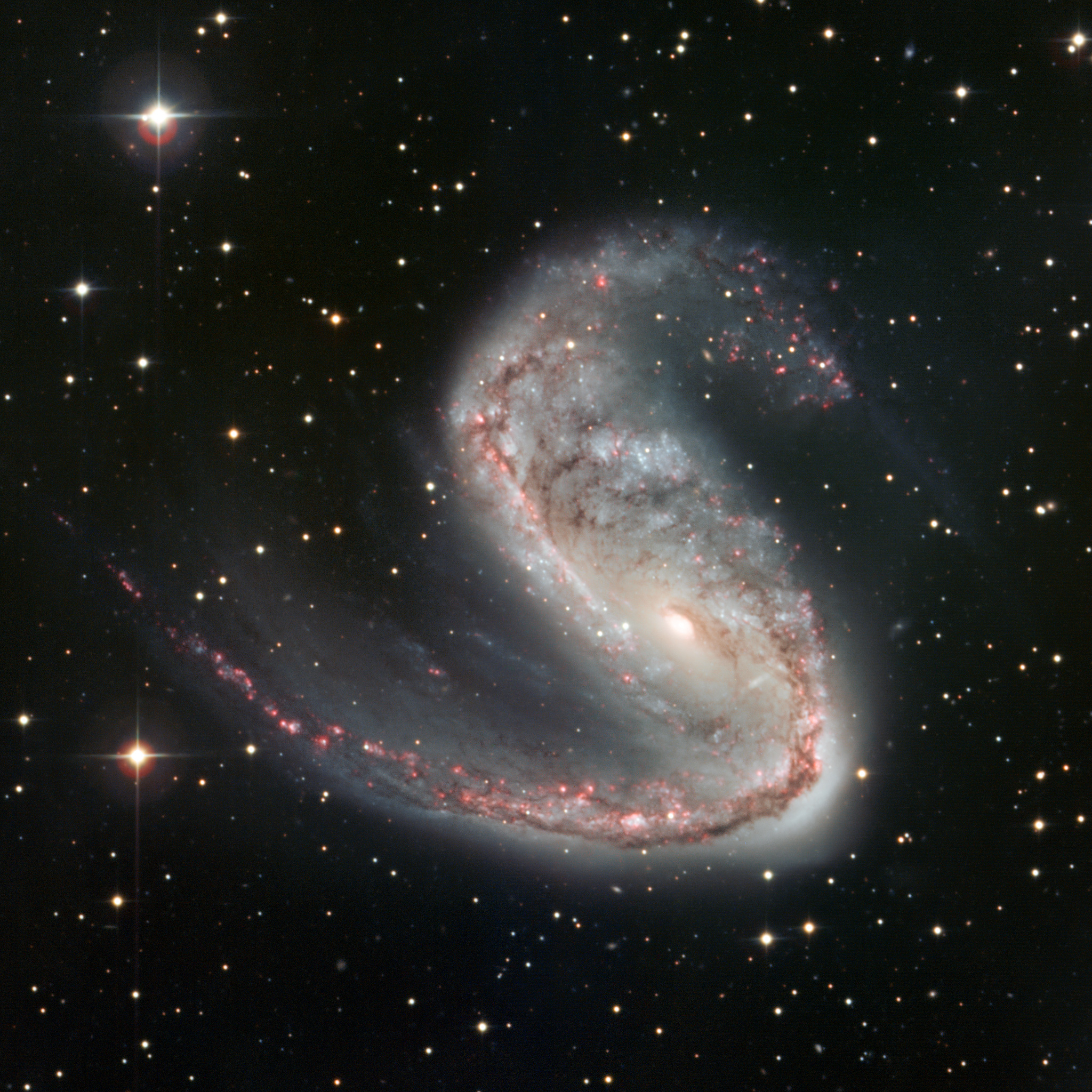 This picture of the Meathook Galaxy (NGC 2442) was taken by the Wide Field Imager on the MPG/ESO 2.2-metre telescope at La Silla, Chile. It shows a much broader view than the Hubble image, although less detailed. This view includes the whole galaxy and the surrounding sky, and clearly shows the asymmetric spiral arms. The longer of the two arms has intense star formation, which is visible here as a pink glow: this is due to the radiation of young stars ionising the gas they form from. The asymmetric shape and star formation are both thought to be caused by tidal disruptions from a near-miss with another galaxy at some point in its history.